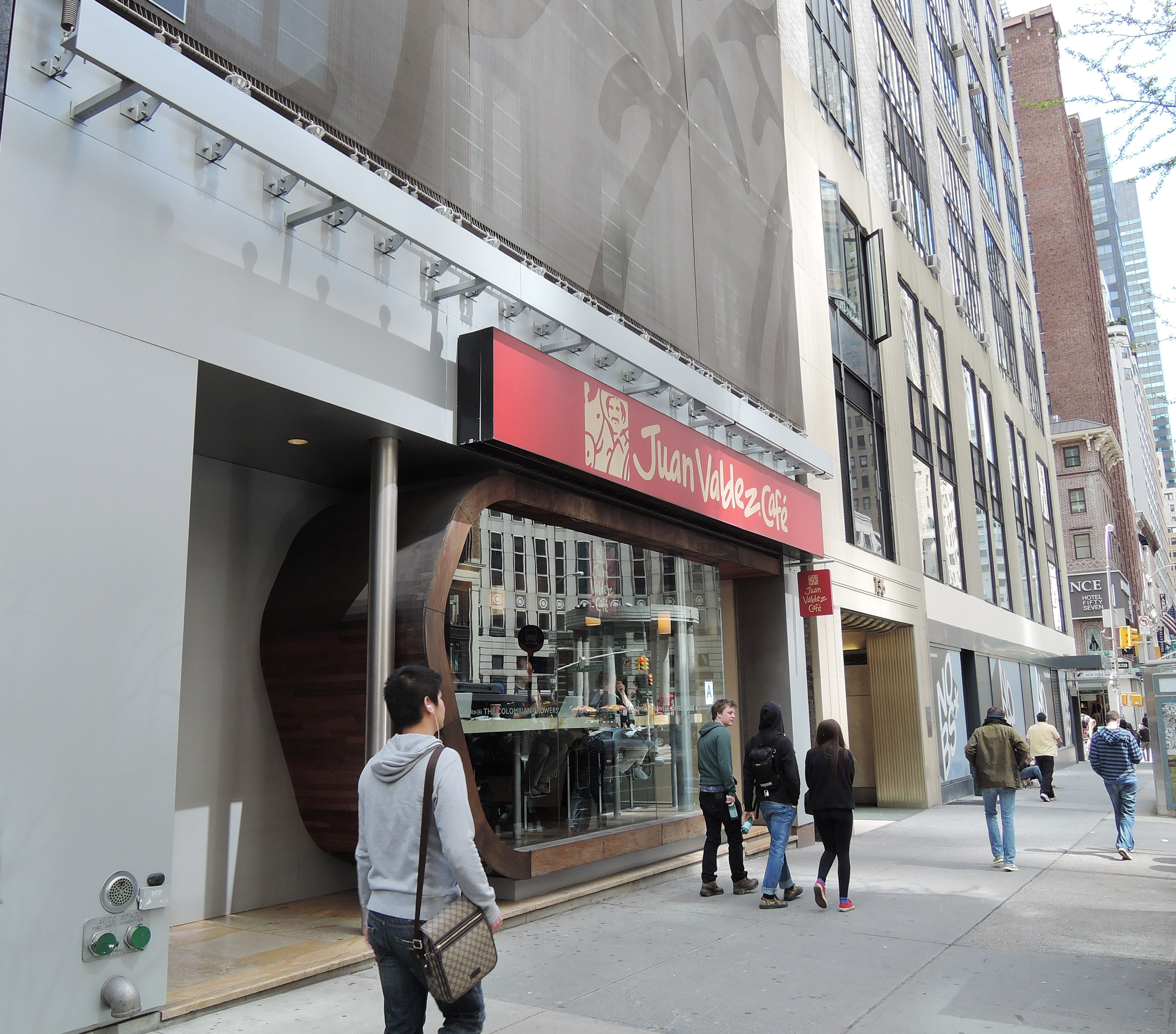 Looking west on East 57th Street at Cafe on a cloudy day.